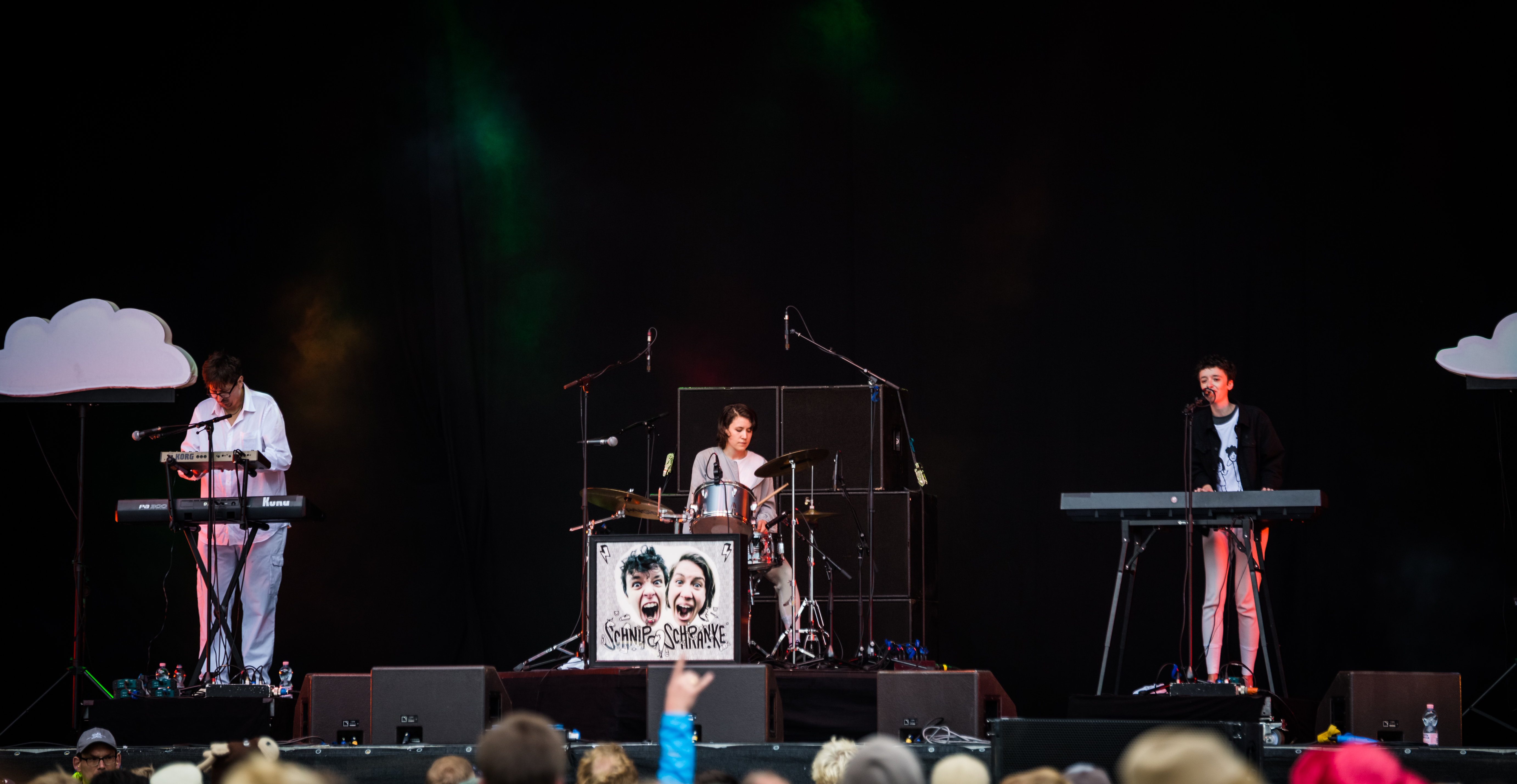 Schnipo Schranke - Rock am Ring 2017